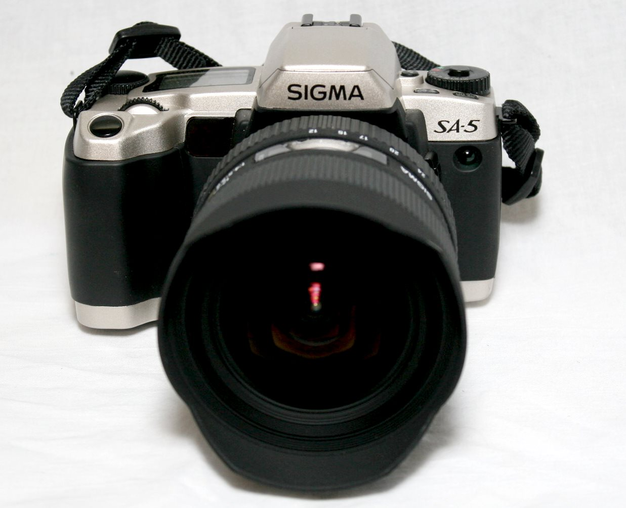 I bought this just to use the 12-24mm lens at 12mm on full frame.